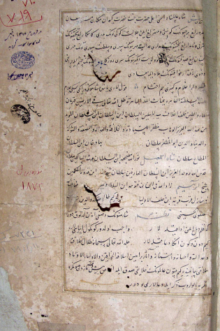 Tercumeyi Sheyk Safi